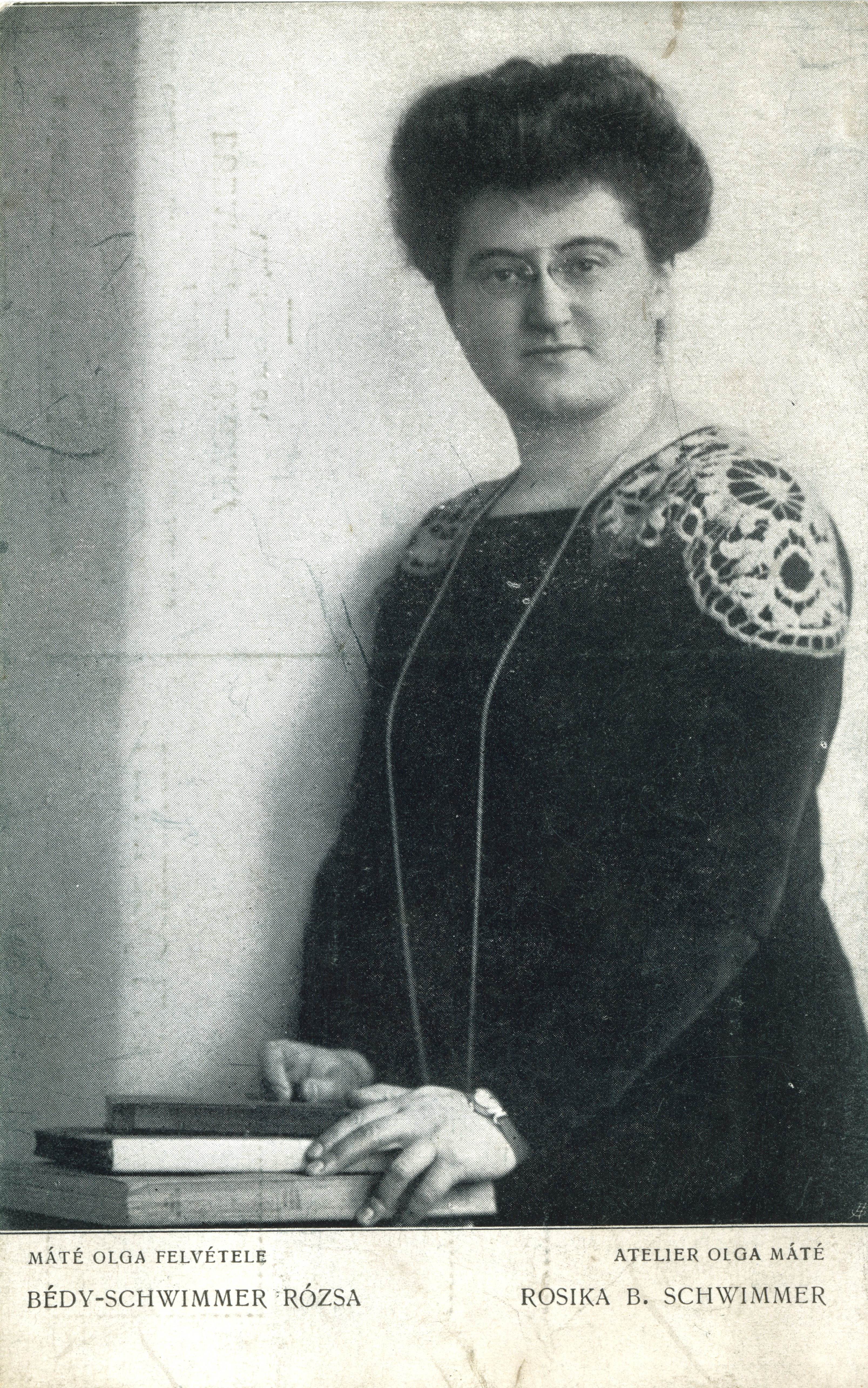 TWL.2000.161Postcard, printed, cardboard, monochrome photographic studio portrait of 'ROSIKA B SCHWIMMER', standing next to a table with three books on it, upper body, front-profile, white border along bottom front edge, black text, printed inscription front: 'MATE OLGA FELVETELE ATELIER OLGA MATE BEDY-SCHWIMMER ROZSA ROSIKA B SCHWIMMER', printed inscription reverse (in four languages): 'INTERNATIONAL WOMAN SUFFRAGE CONGRESS BUDAPEST - HUNGARY', manuscript inscription reverse: 'Rosika Schwimmer Ambassador to USA [United States of America] [Switzerland?] during?'.